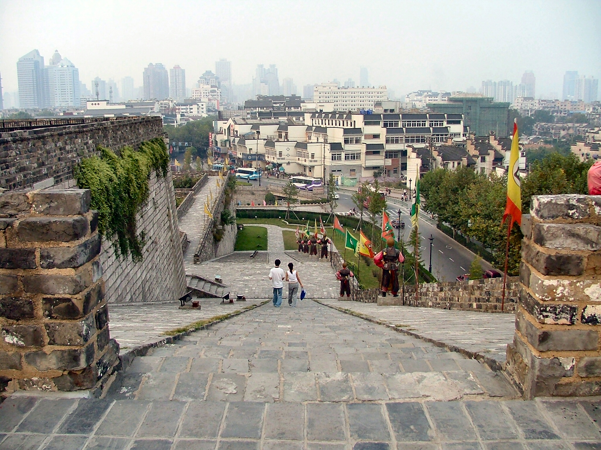 On each side of the gate, large ramps accommodate running soldiers on horse back to the top. Horse ramp of Gate of China, Nanjing.